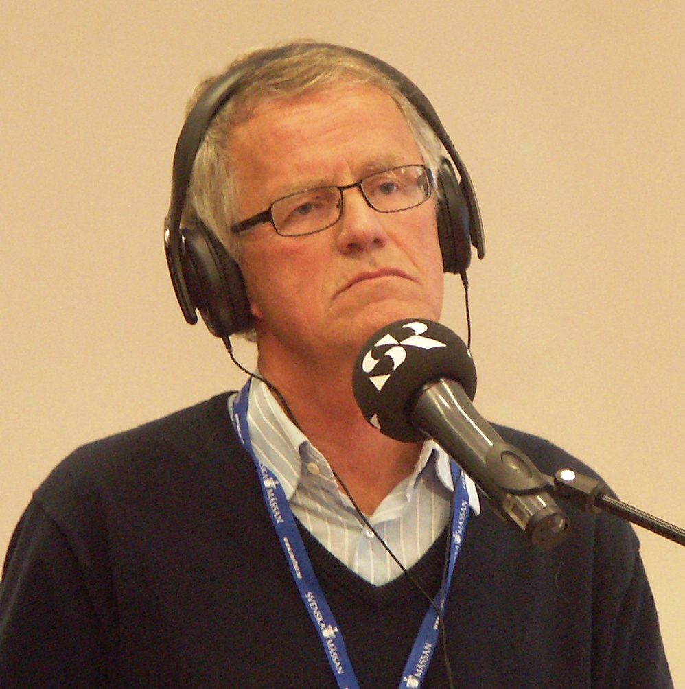 Swedish radio host Lasse Swahn, at the 2009 Göteborg Book Fair.